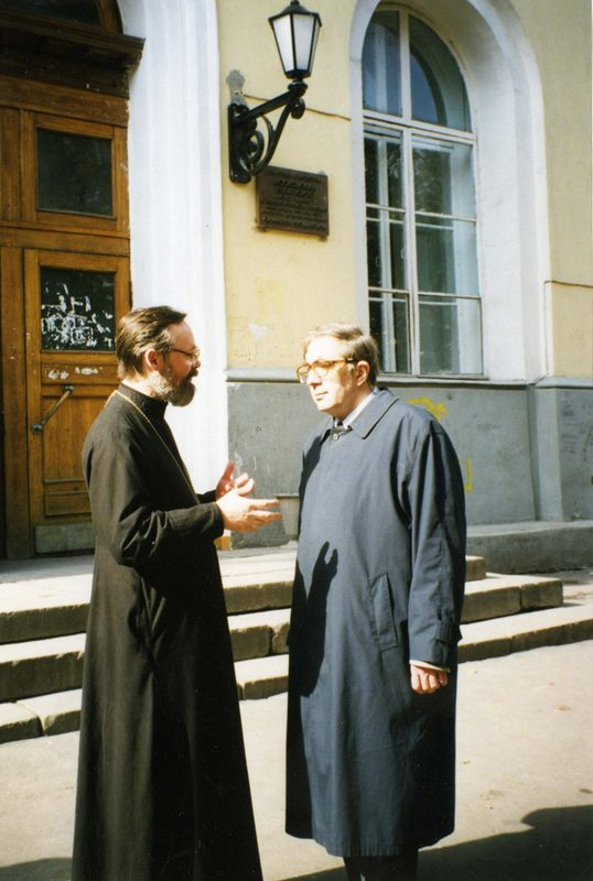 Sergey Averintsev (right) with Georgy Kochetkov